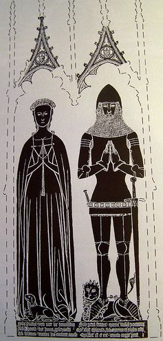 A rubbing of the monumental brass of Sir Maurice Russell (2 February 1356 – 27 June 1416; right) and his wife Isabel Childrey at St. Peter's Church, Dyrham, South Gloucestershire, England, UK.